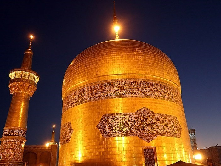 Imam Reza Shrine, Mashhad, Iran